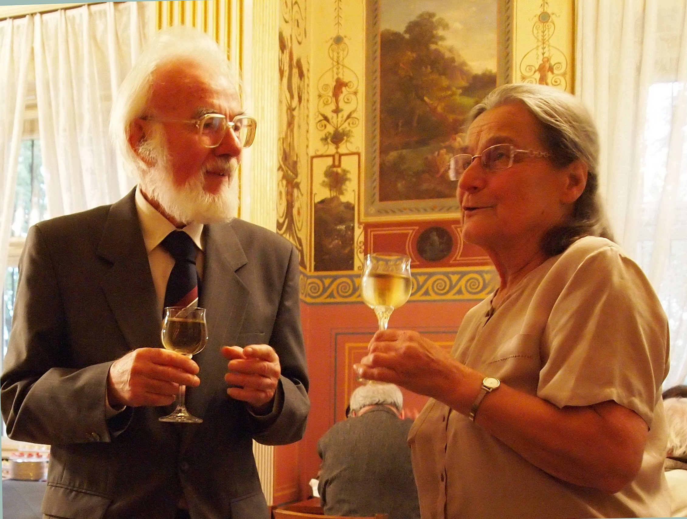 Czech Archivist Prof. Zdenka Hlediková with Doc. Ivo Kořan, 2010, January, Prague, Villa Lanna